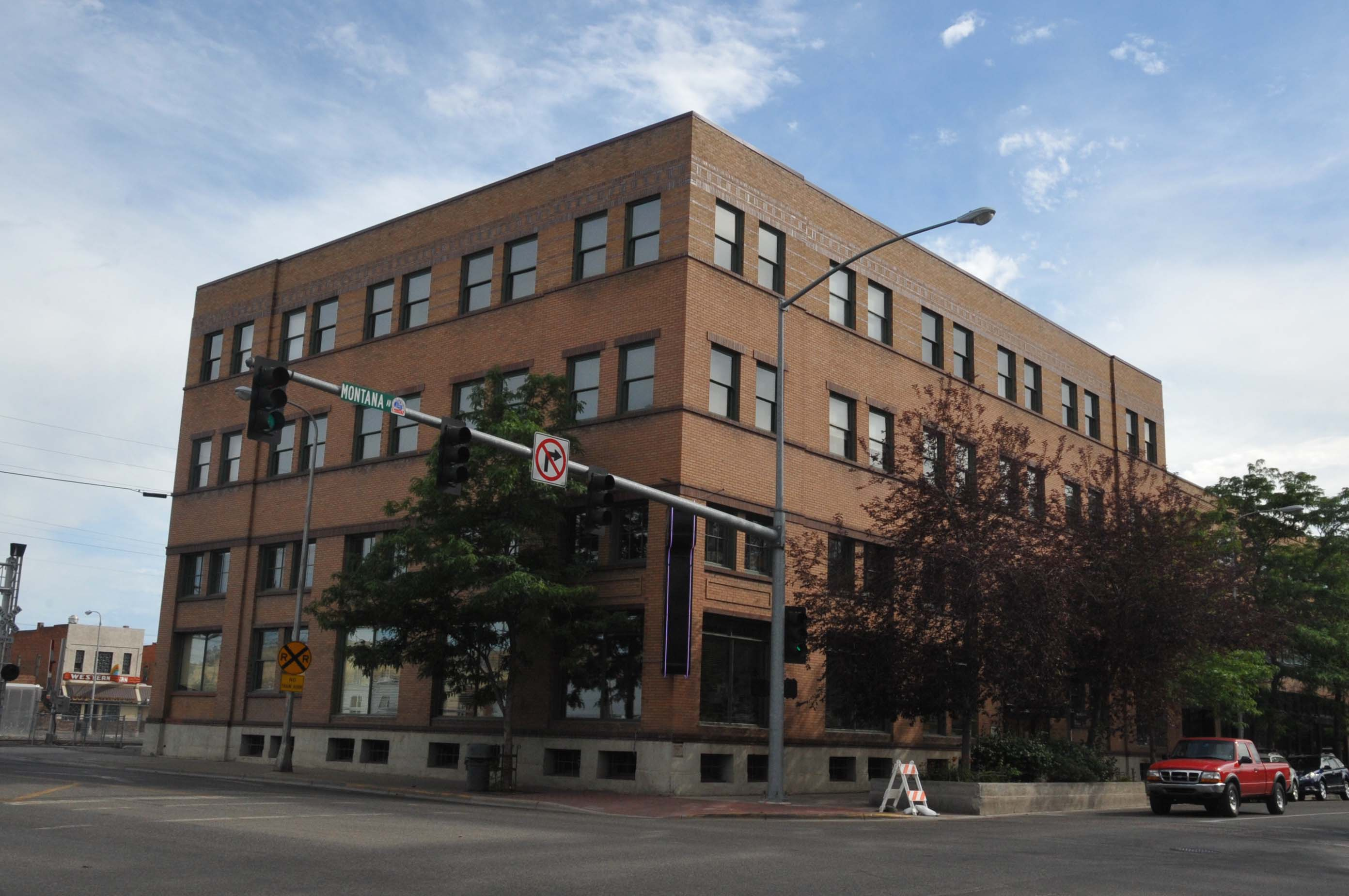 COMPLETED IN 1910, THE OLIVER BUILDING REFLECTS THE LARGE-SCALE INDUSTRIAL/COMMERCIAL ARCHITECTURE ASSOCIATED WITH BILLINGS’ EARLY TWENTIETH CENTURY ECONOMIC BOOM